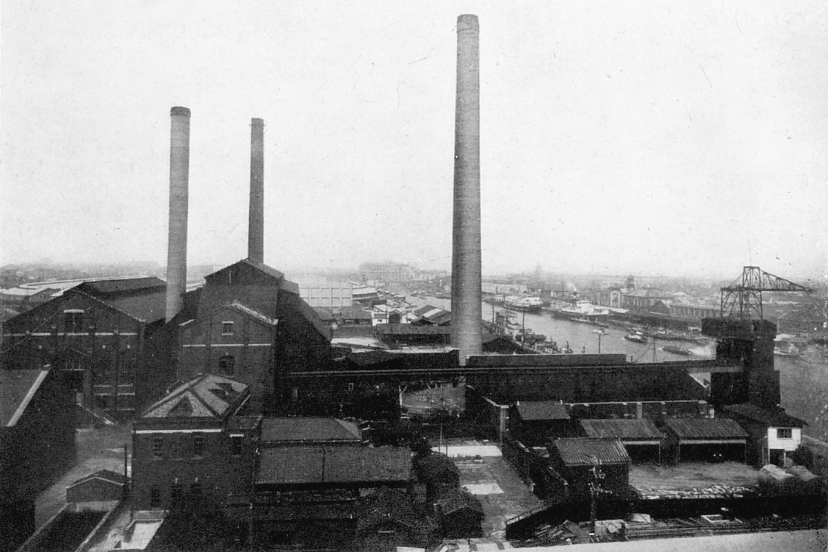 Ajigawa east power station (1914 - 1944)